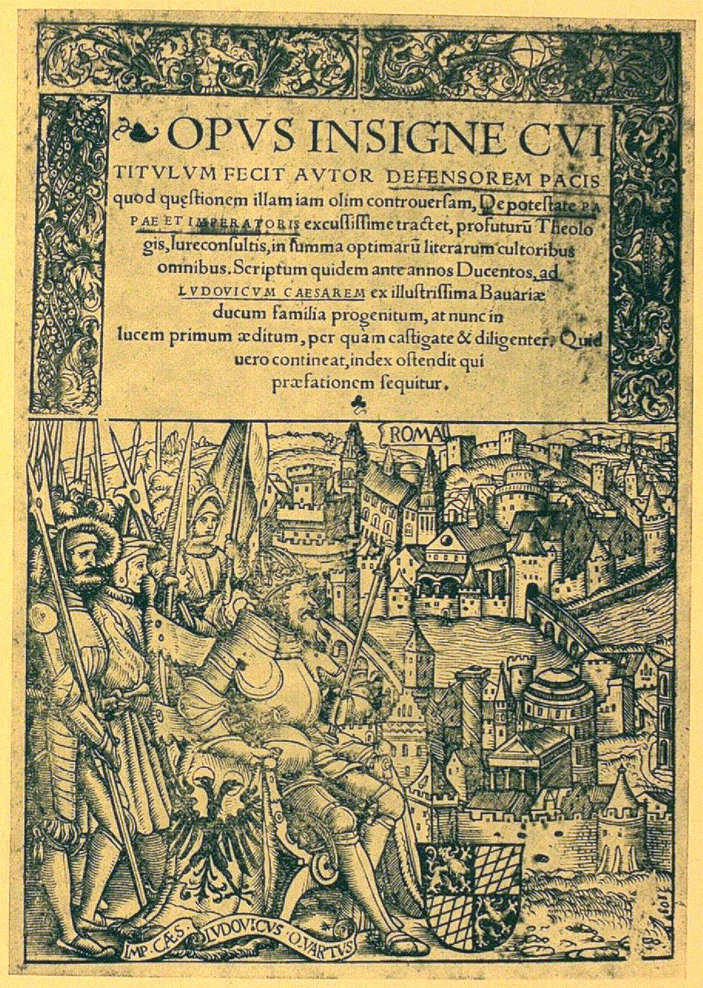 The title page of the first edition of the Defensor pacis printed at Basel.